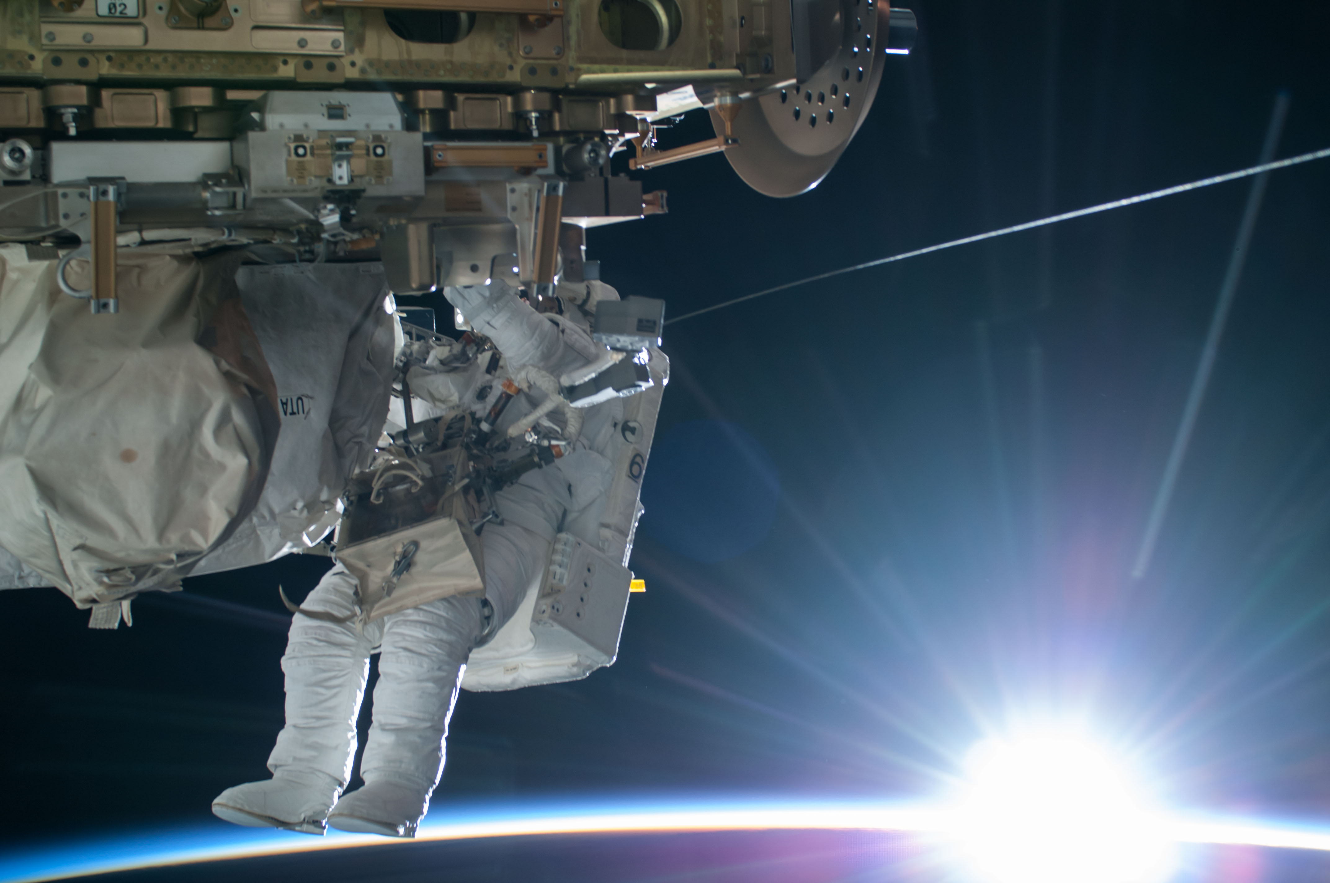 NASA astronaut Terry Virts Flight Engineer of Expedition 42 on the International Space Station is seen working to complete a cable routing task while the sun begins to peak over the Earth's horizon on Feb. 21 2015. Virts and fellow astronaut Barry "Butch" Wilmore completed a 6-hour, 41-minute spacewalk routing more than 300 feet of cable as part of a reconfiguration of the station to enable U.S. commercial crew vehicles under development to dock to the space station in the coming years.